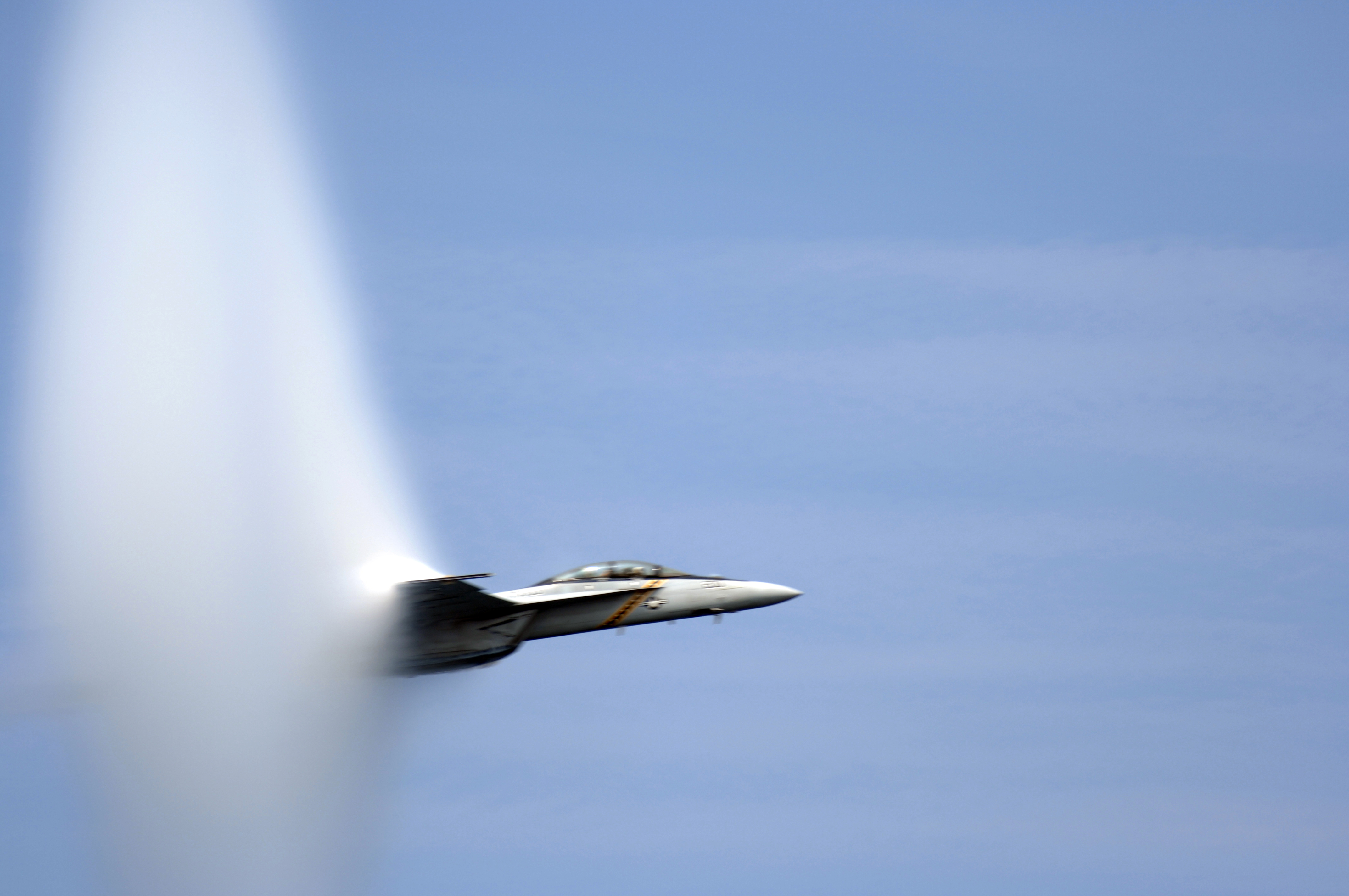 080830-N-6107D-001 ATLANTIC OCEAN (Aug. 30, 2008) An F/A-18E Super Hornet, assigned to the "Jolly Rogers" of Strike Fighter Squadron (VFA) 103, reaches the speed of sound near the Nimitz-class aircraft carrier USS Dwight D. Eisenhower, CVN-69, during a Friends and Family Day Cruise off the coast of Virginia.